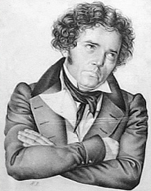 Pavel Mochalov